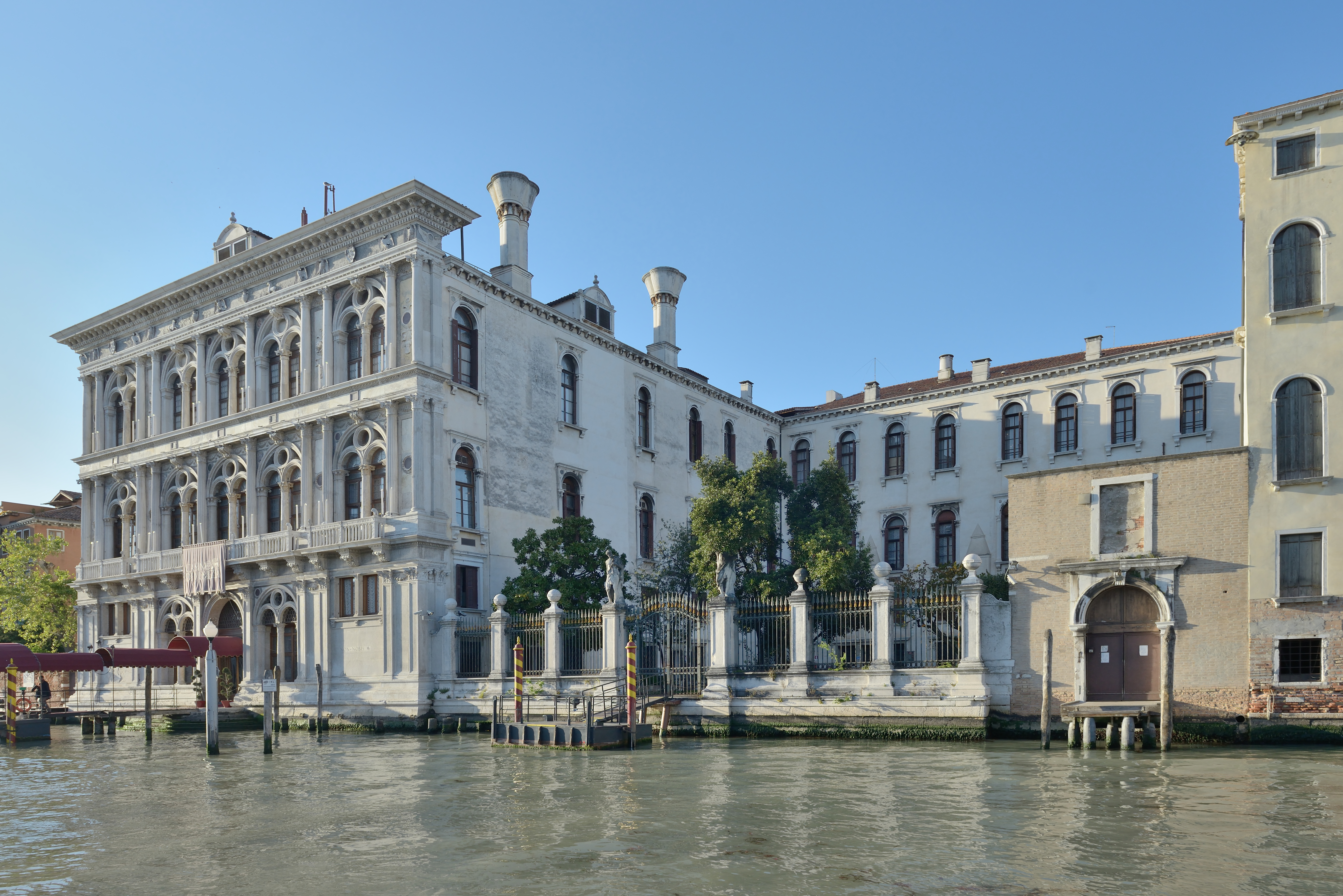 The palace Ca' Vendramin Calergi on the Canal Grande in Venice.